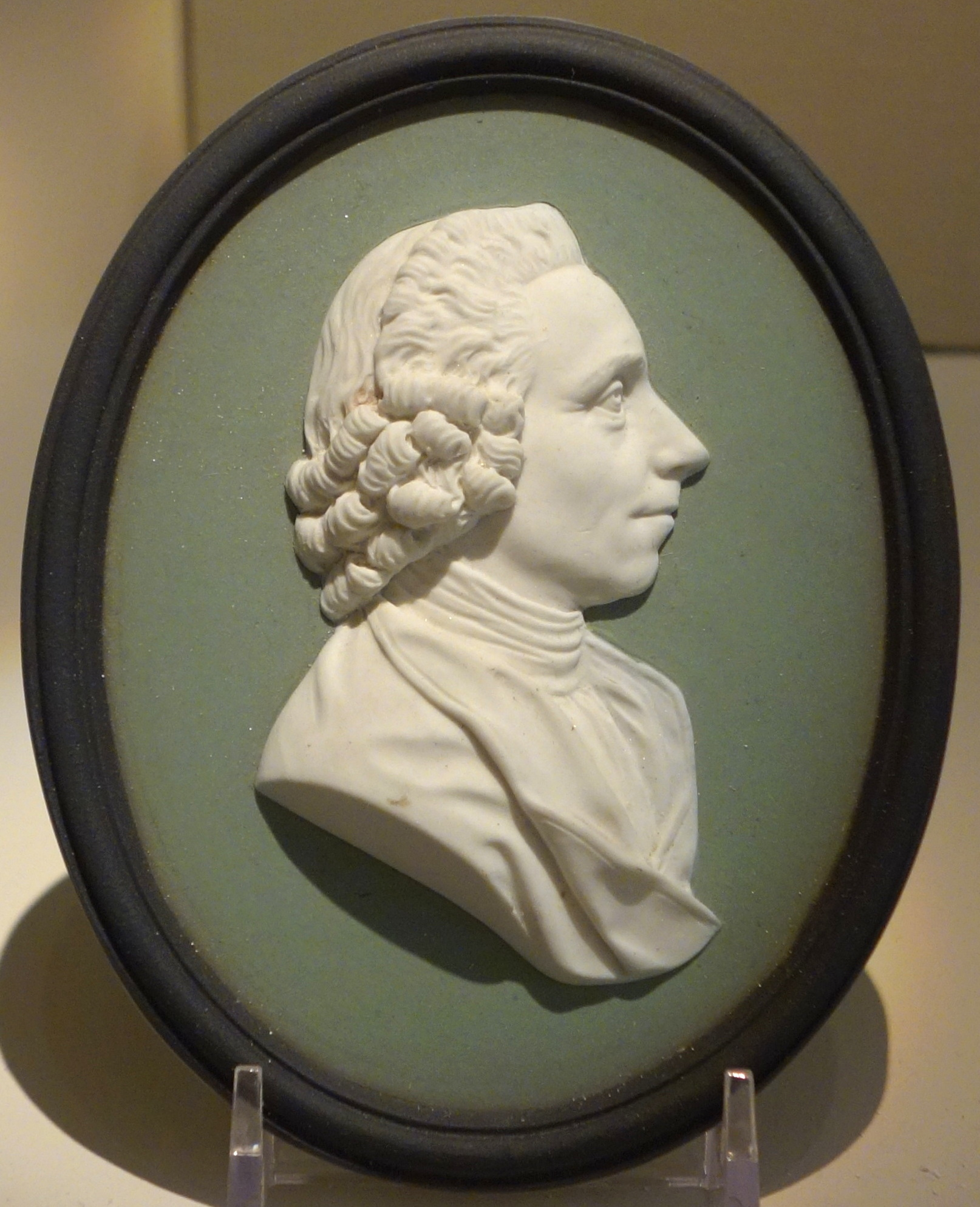 Exhibit in the Chazen Museum of Art, University of Wisconsin-Madison, Madison, Wisconsin, USA. This artwork is old enough so that it is in the public domain.